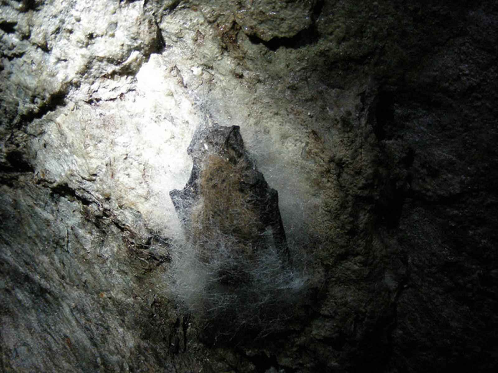 Image title: Little brown bat affected by white nose syndrome Image from Public domain images website